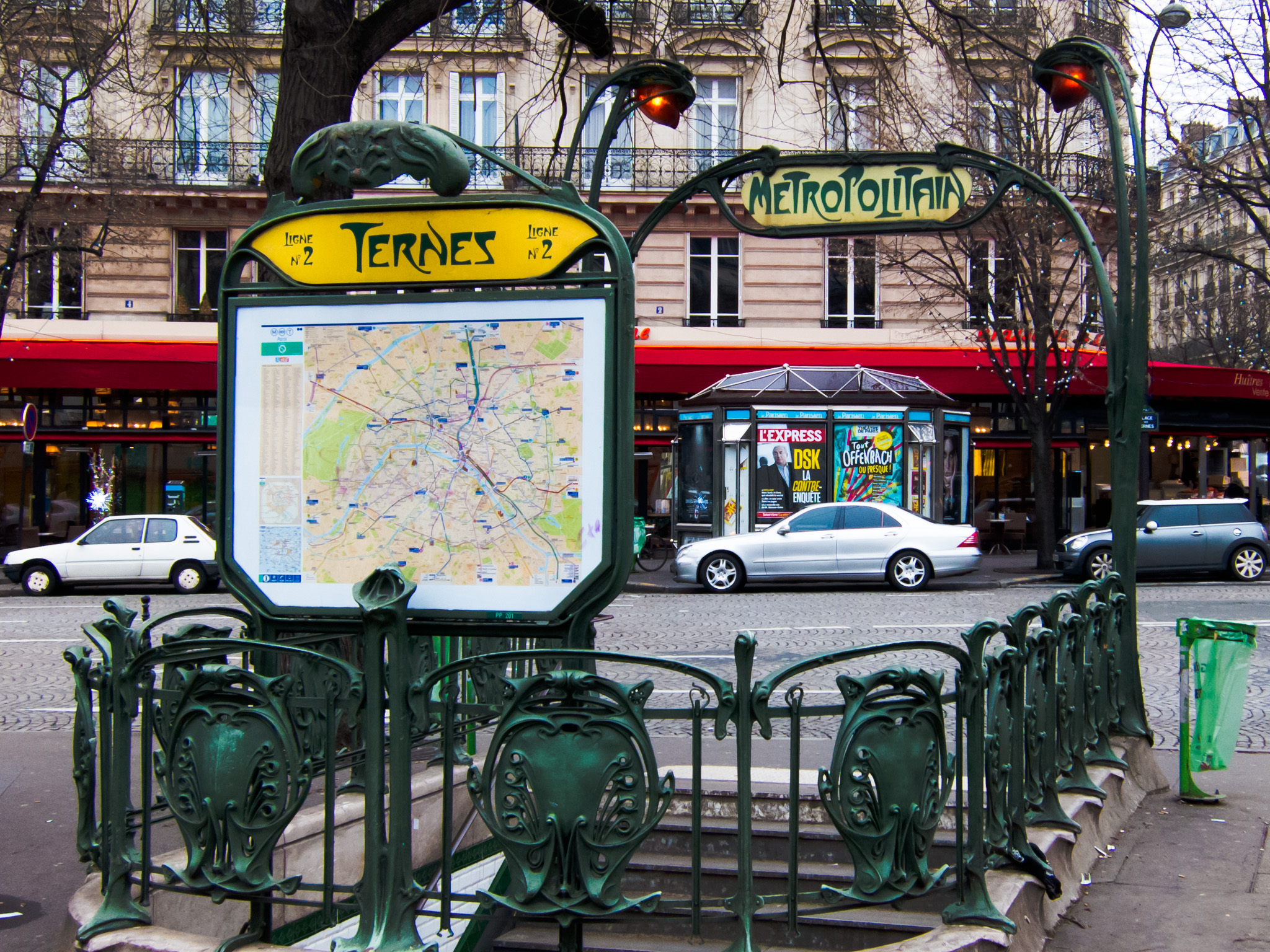 Entrance to the Ternes Metro station in Paris, France. The orante ironwork and stained glass lights that decorate the station entrance are much different than most mass-transit systems in the world.